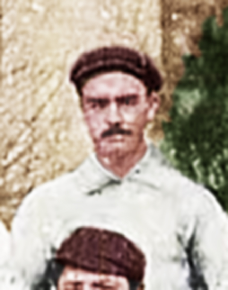 Panagis Vrionis playing for Servette F.C. in 1900 cropped and color edited from File:Servette F.C. 1900-01 - II Mannschaft.jpg